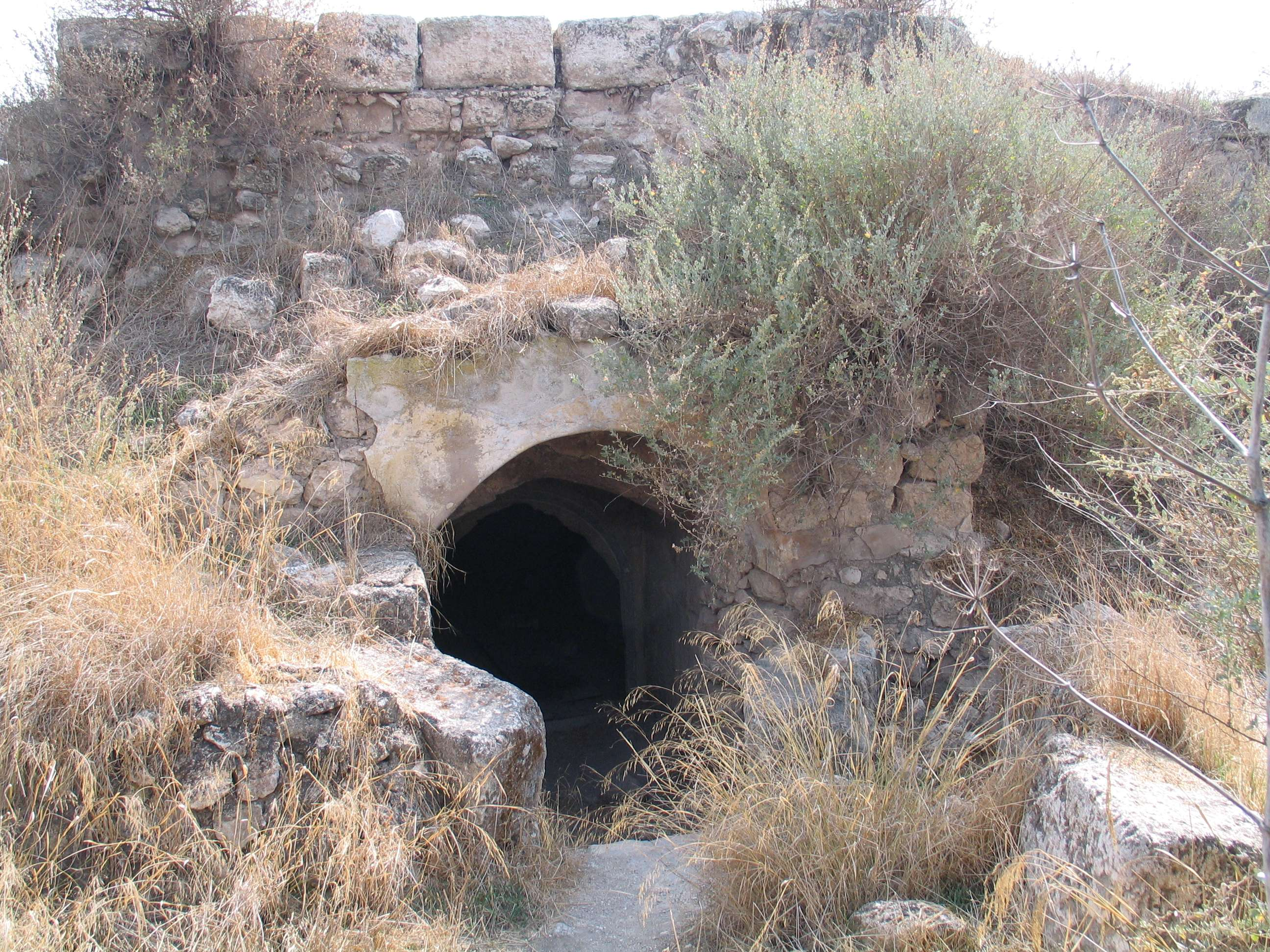 Ruins of the crusader castle at Latrun, Israel.